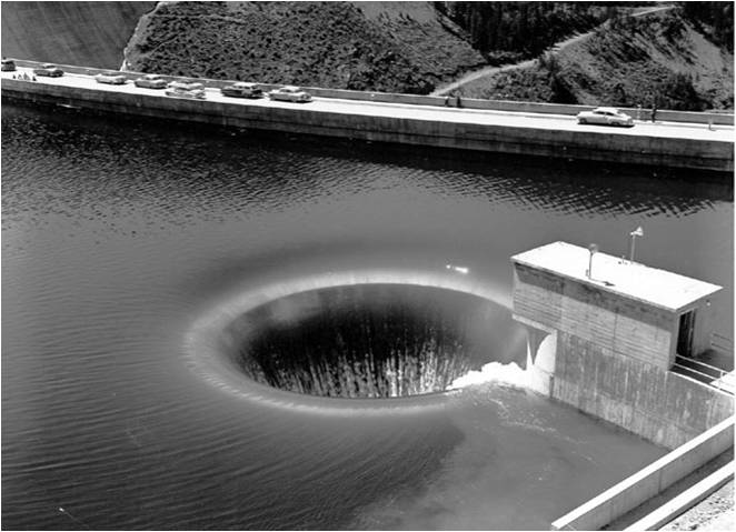 View of Hungry Horse Dam spillway in operation.